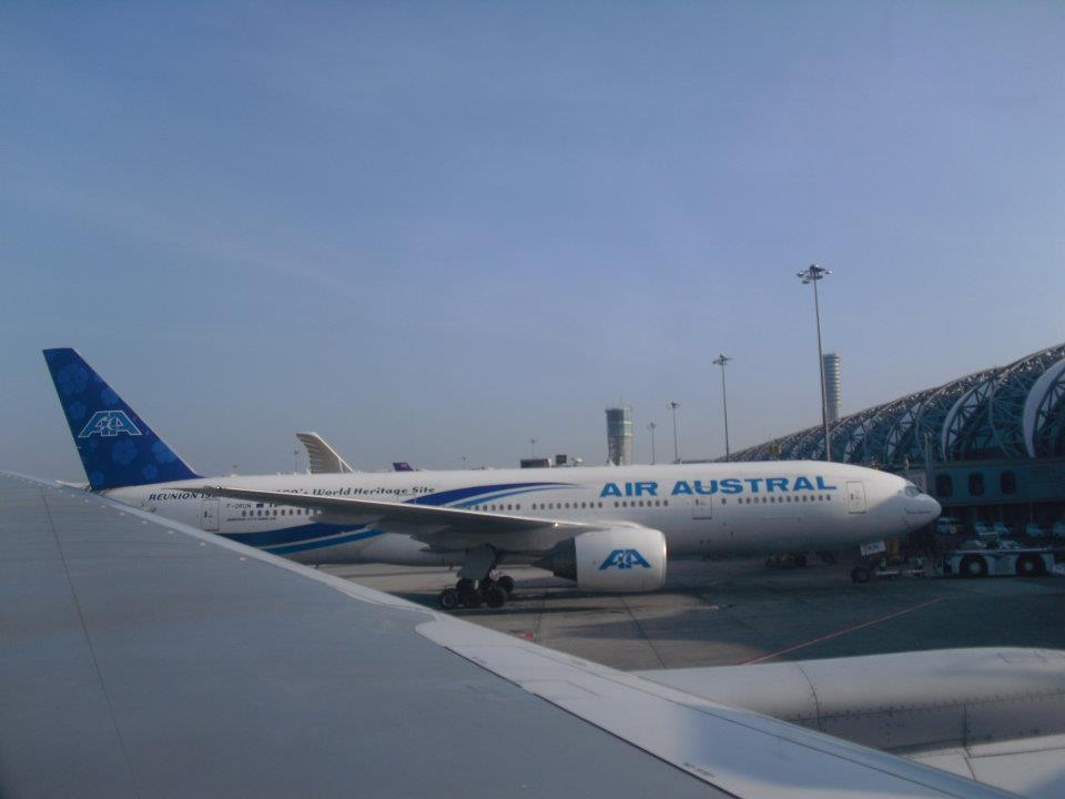 Air Austral at BKK